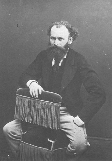 Photo of French painter Edouard Manet, seated.